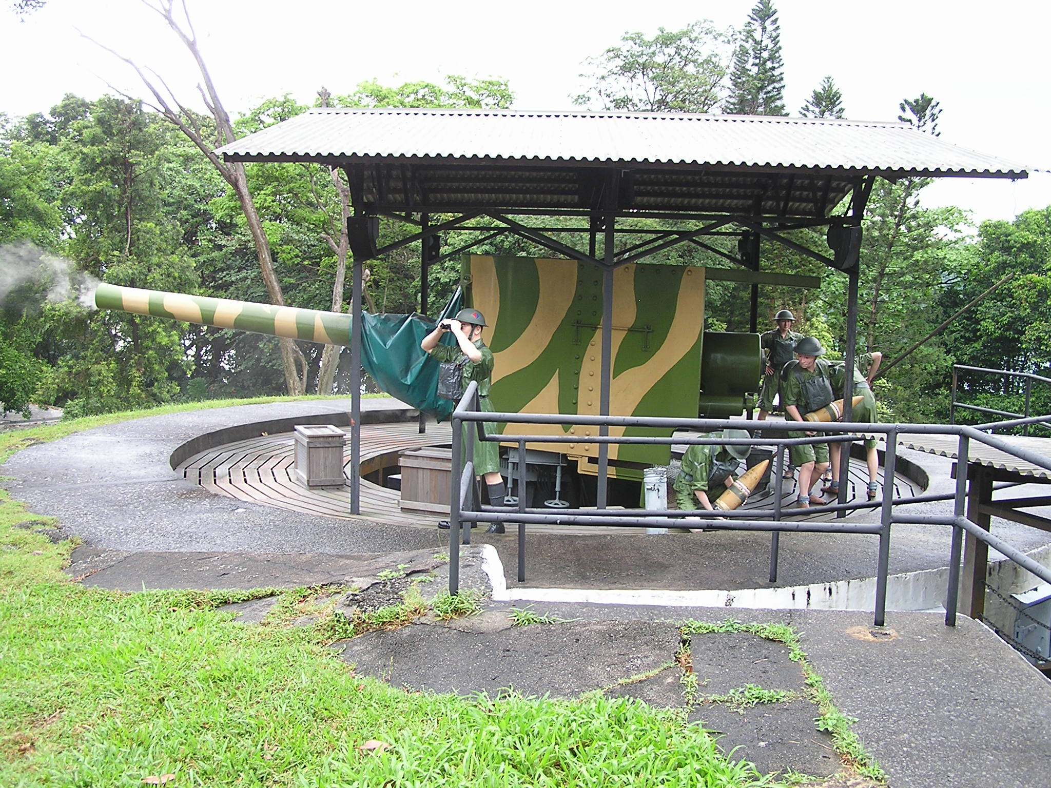 A display featuring a replica 6-inch Mk VII gun at Fort Siloso, Sentosa, Singapore.